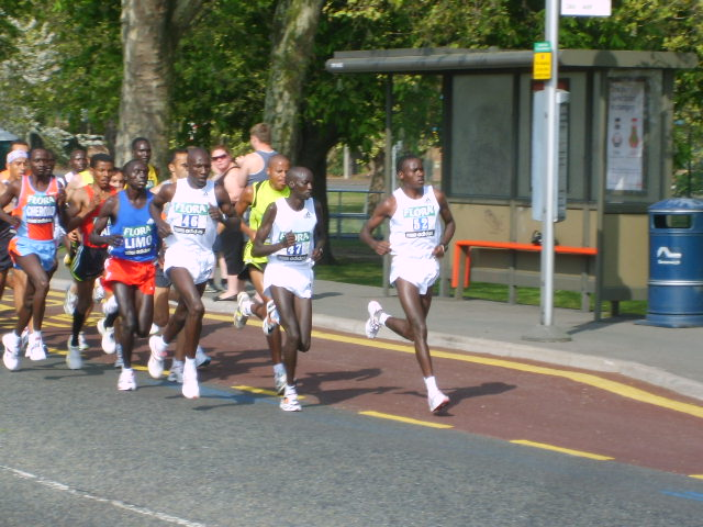 London Marathon 2007: The leaders in the 2007 London Marathon in Ha-ha Road, after running 2 miles from Blackheath.